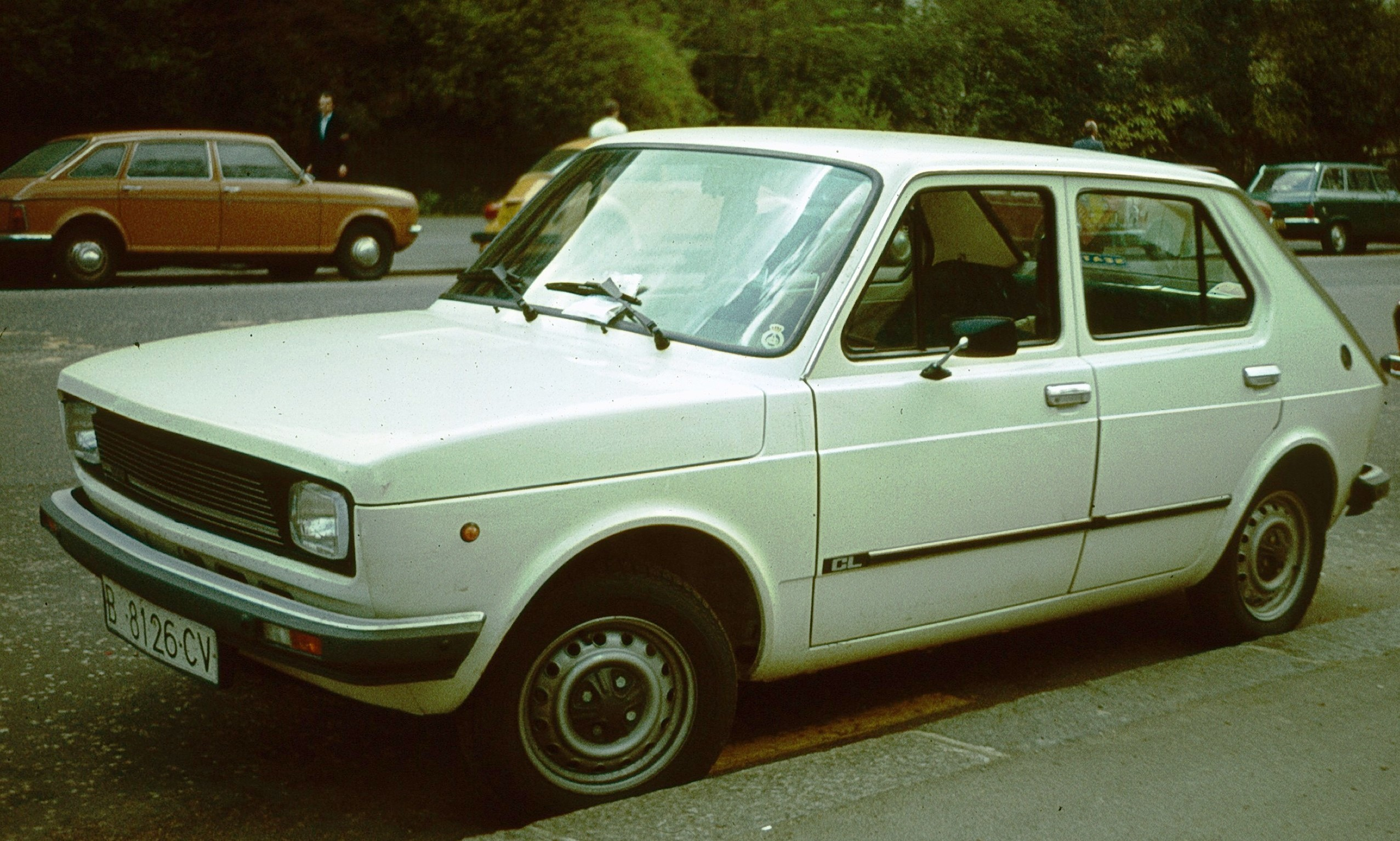 Seat 127 S2 4 door from Barcelona in Cambridge